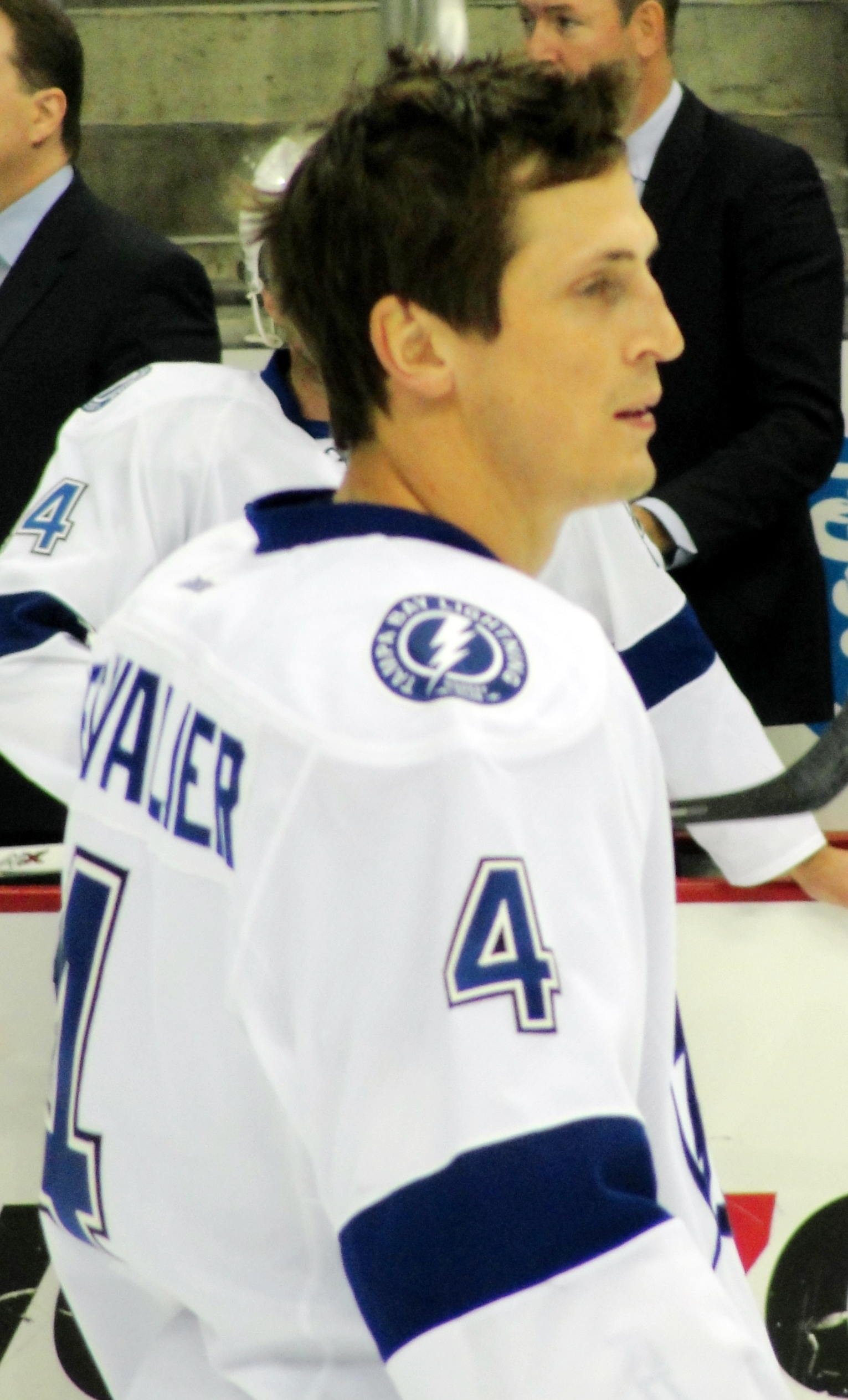 Vincent Lecavalier of the Tampa Bay Lightning during a February 12, 2012 game against the Pittsburgh Penguins at Consol Energy Center in Pittsburgh, PA.